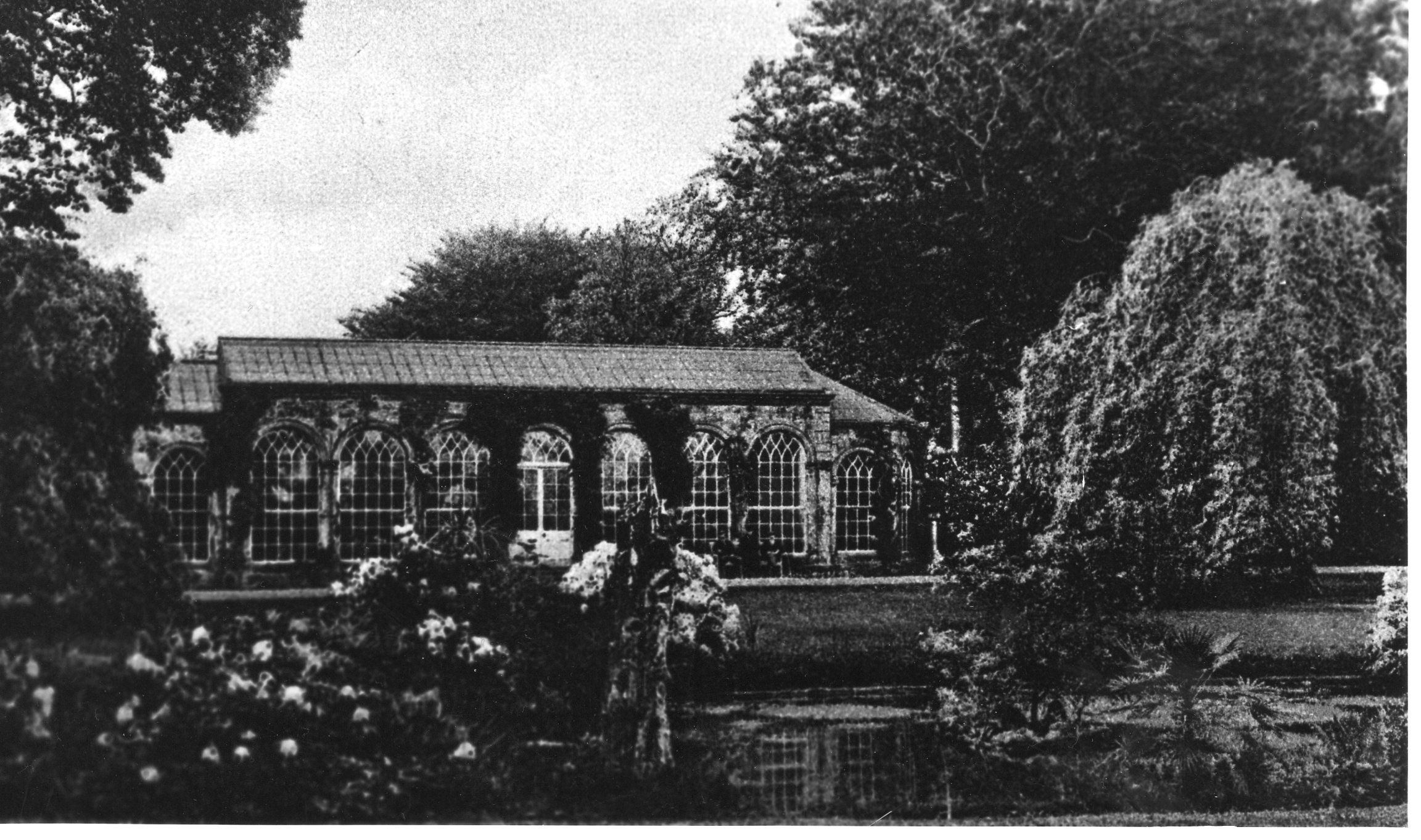 Copy of original postcard circa 1906